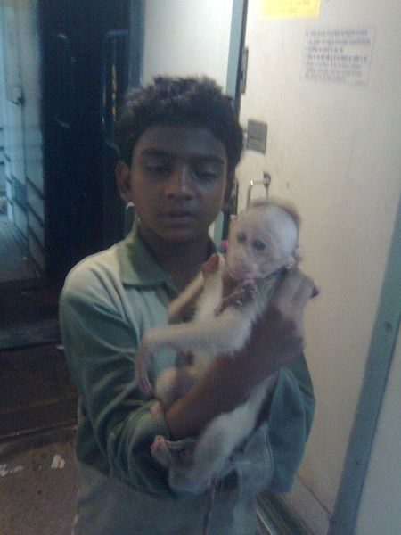 A pre-teen Indian boy showing a baby monkey in action inside a moving train to make his living.